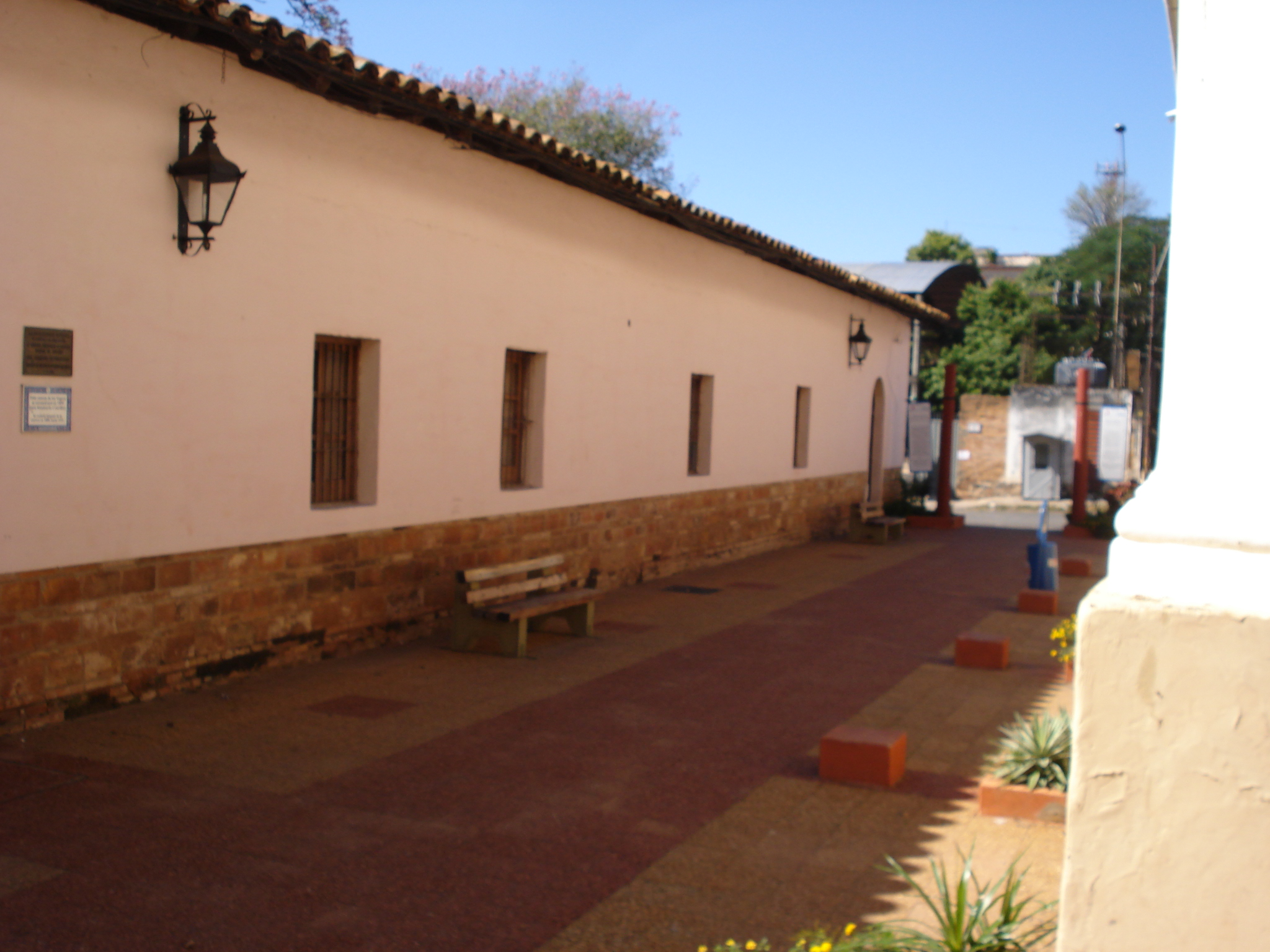 Pasaje Comuneros (Catedral) (or Common Passage in Catedral). Catedral is one of the oldest, and the main, sector in the city of Asunción.